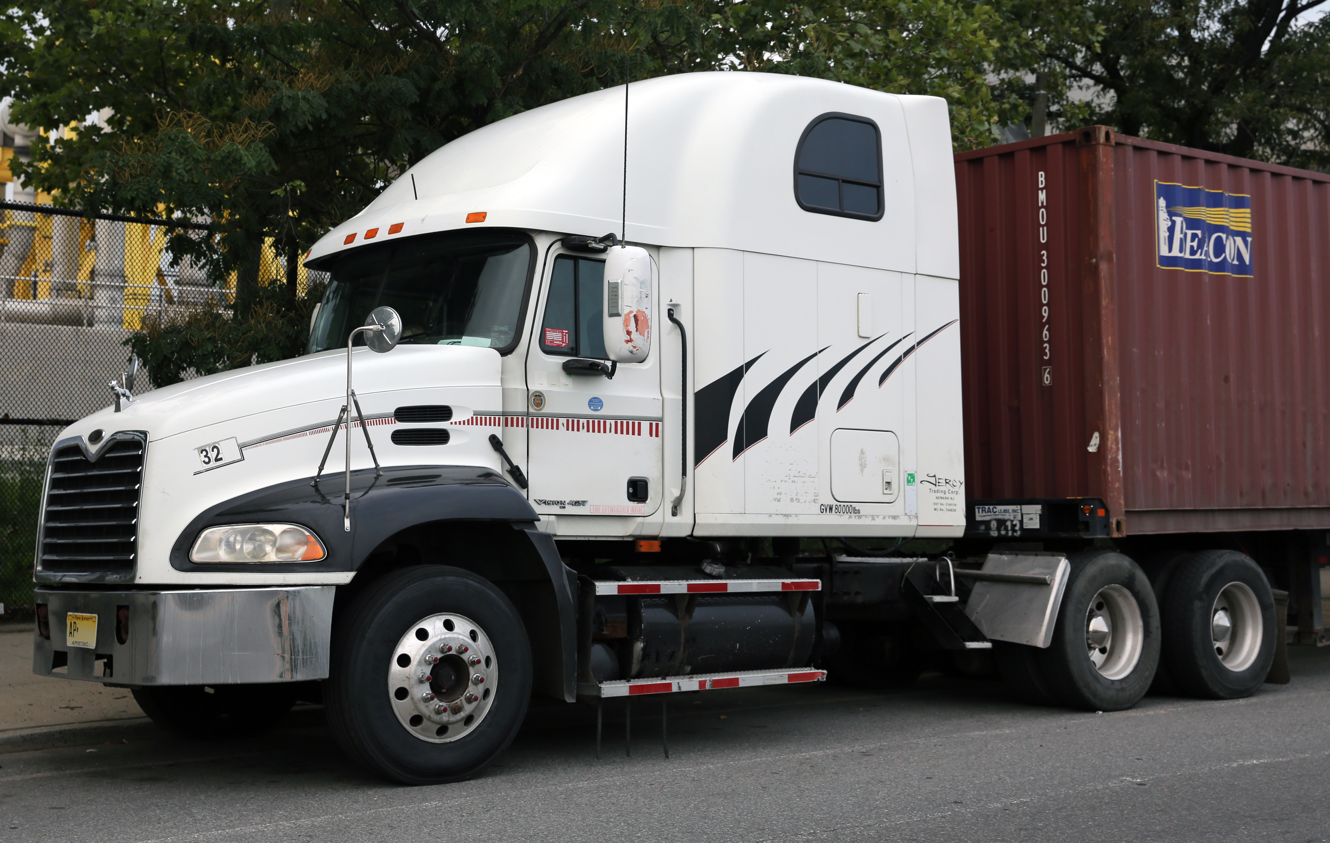 A Mack Vision 427 trailer truck.